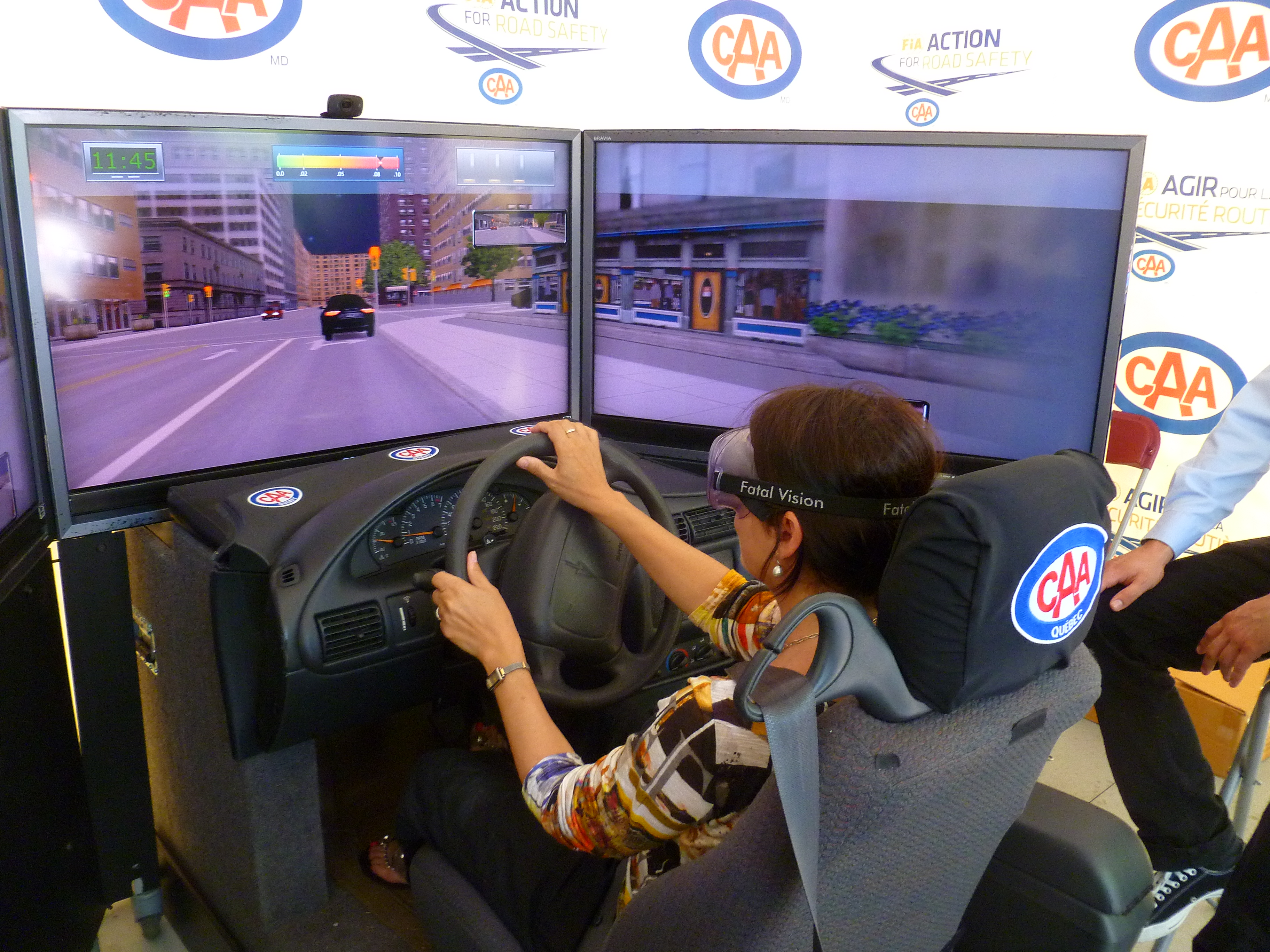 This is a photo of a woman using a driving simulator that recreates the experience of driving under the influence of alcohol. She is wearing glasses that distort her vision. Other information If you are going to use this outside of Wikipedia, all I ask is that you leave a comment on my talk page telling me where. There are no restrictions on the use of this image by any entity associated with the Wikimedia Foundation.